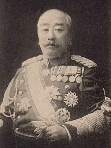 Viscount Oshima Yoshimasa (1850-1926) was a general in the Imperial Japanese Army.